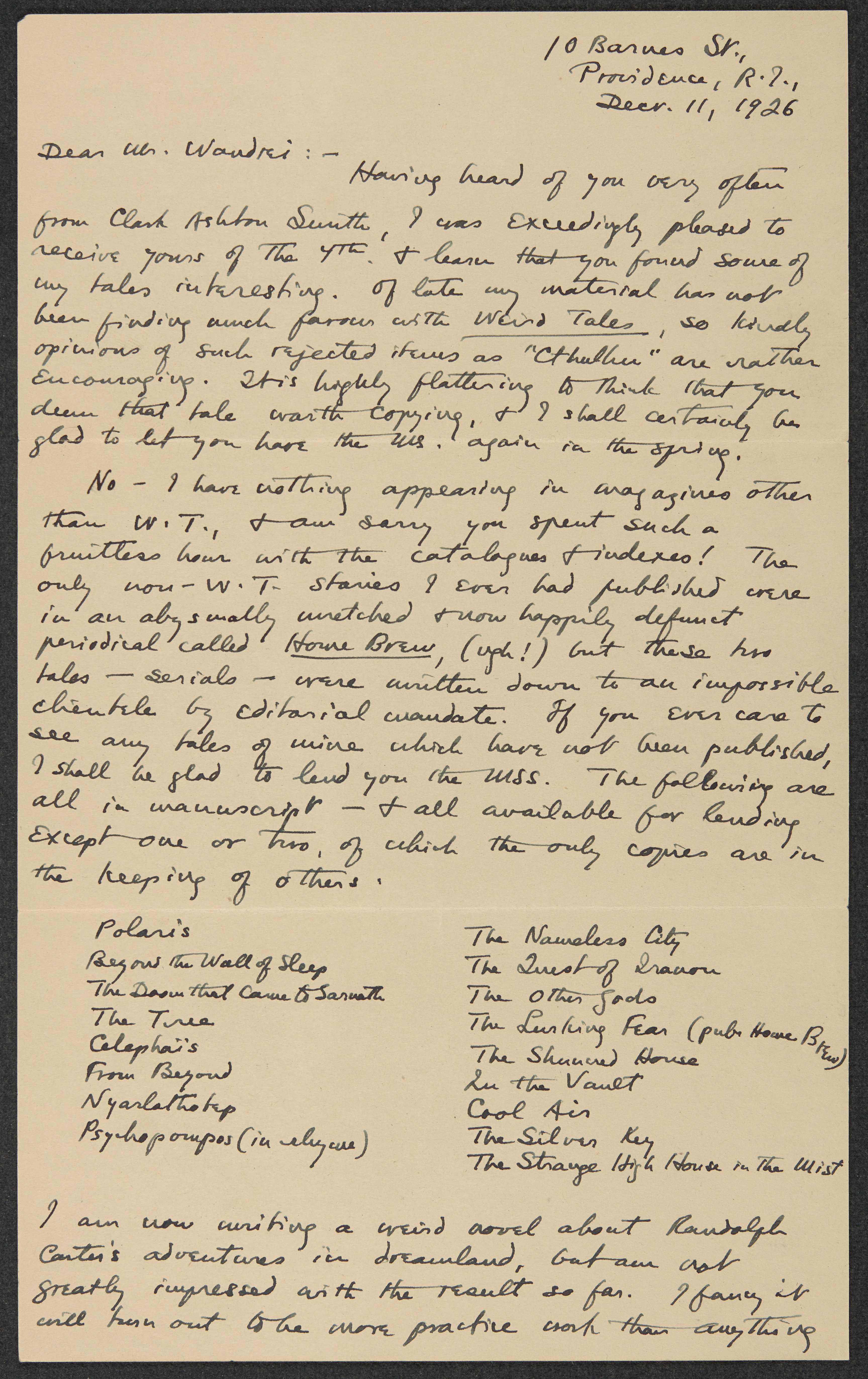 Letter from H. P. Lovecraft to Donald Wandrei.